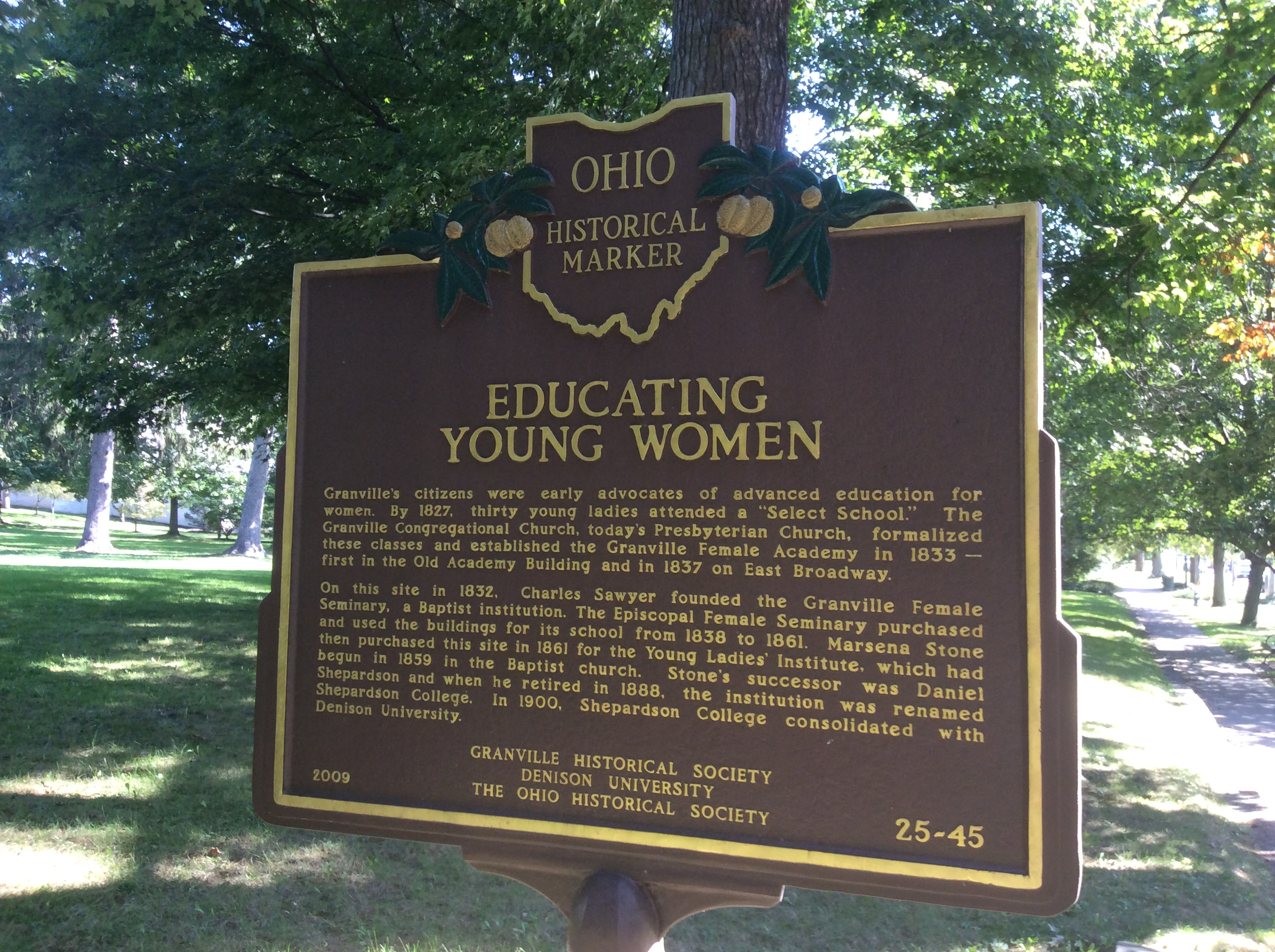 Ohio Historical Marker accounts the early history from 1827 of women's advanced education in the village and at Denison University and several of its predecessor institutions